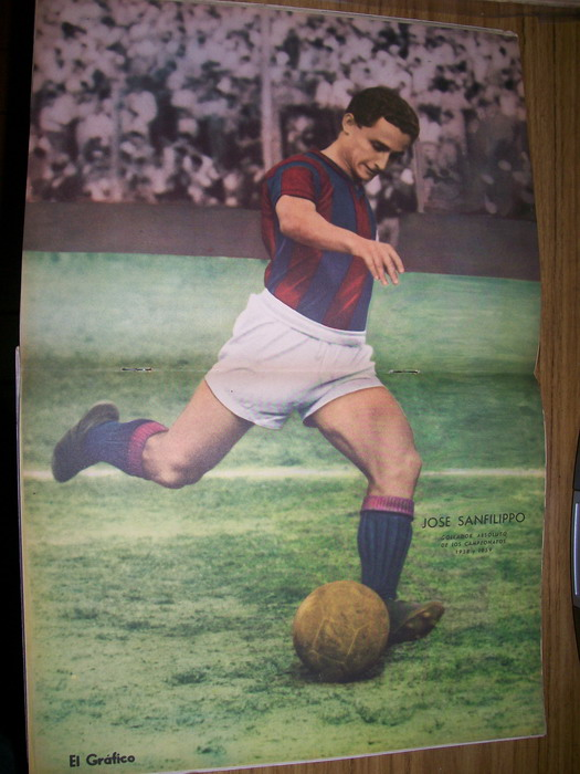 José Francisco Sanfilippo in San Lorenzo de Almagro (1960).